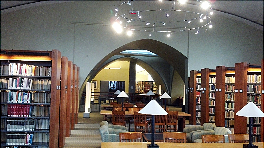 Main reading room of the Gill Memorial Library at the College of New Rochell